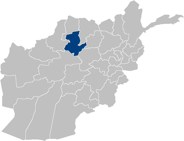 Location map for Sar-e Pol Province in Afghanistan. Original map source: Image:Afghanistan_provinces_blank.png